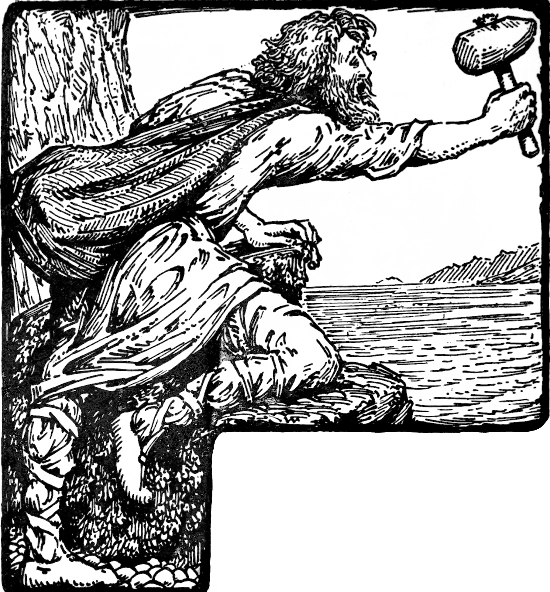 An illustration to Hárbarðsljóð. The list of illustrations in the front matter of the book gives this one the title Thor threatens Greybeard.